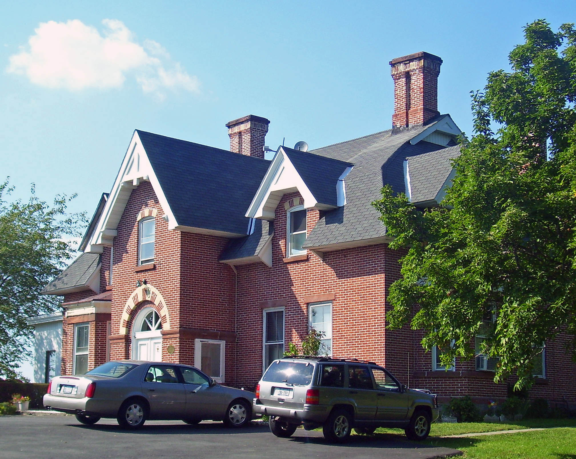 Eustatia, house overlooking the Hudson in Beacon, NY, USA